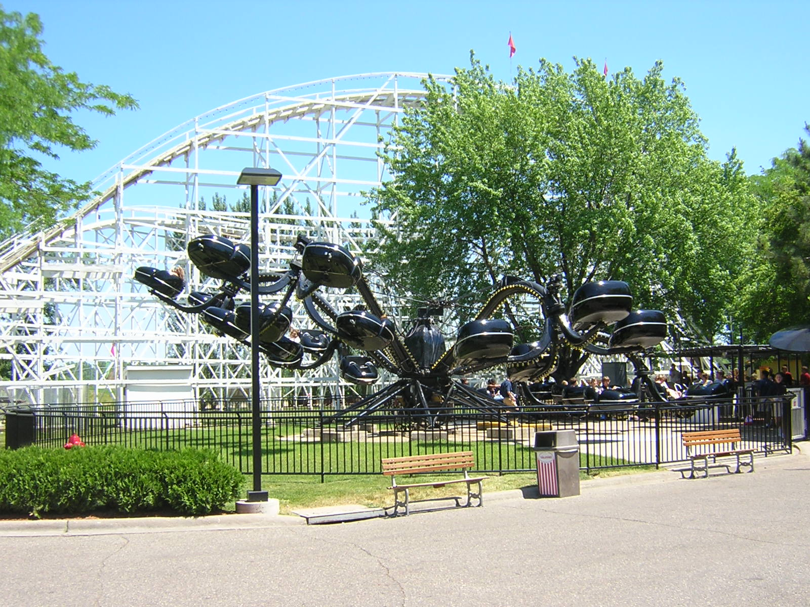 Octopus ride, in front of High Roller roller coaster at Cedar Fair's Valleyfair! amusement park in Shakopee, Minnesota, USA